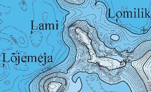 A bathymetric map of seamounts and islands in Micronesia and the Marshall Islands